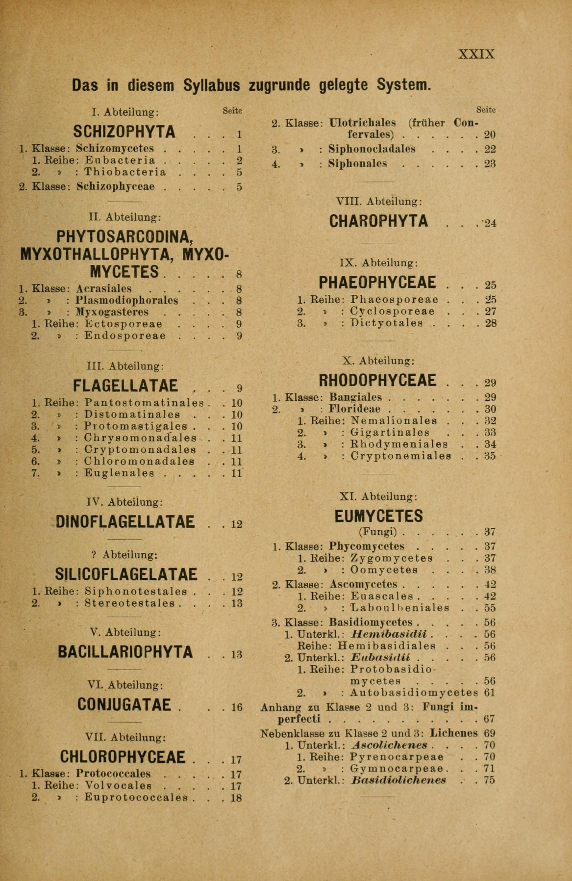 Page XXIX of Adolf Engler's Syllabus der Pflanzenfamilien, ed. 8, 1919